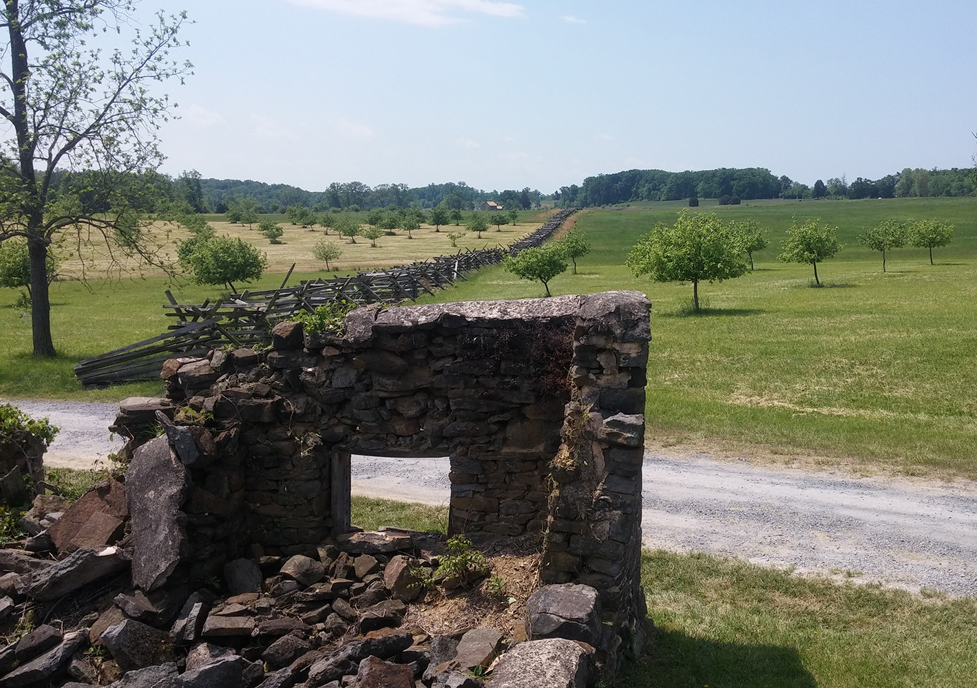 Rose farm and Peach Orchard